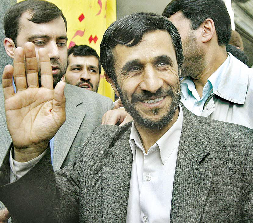 Mahmoud Ahmadinejad - June 25, 2005